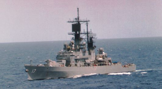 The U.S. Navy guided missile cruiser USS Harry E. Yarnell (CG-17) underway in the 1980s.